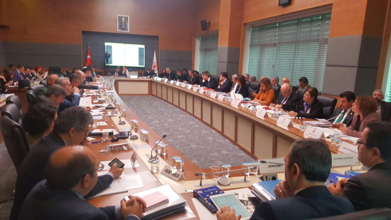 The Turkish Parliamentary Constitutional Commission debating the AKP and MHP's constitutional proposals in December 2016